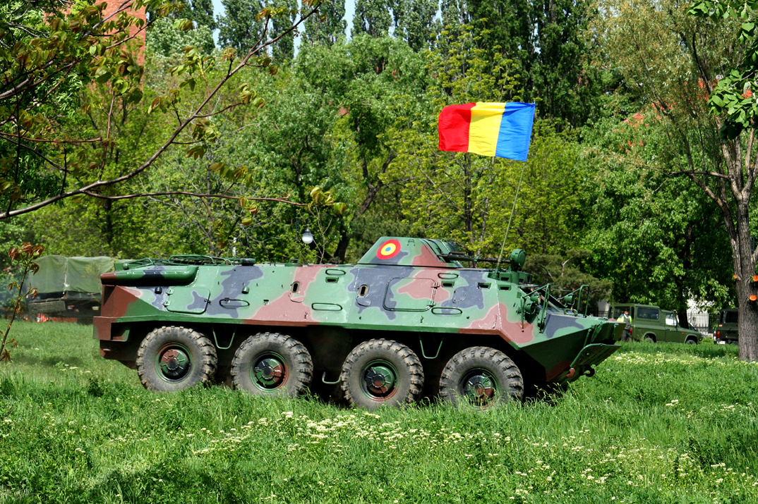 TAB-71 (a variant of the BTR-60PB built in Romania) during the Day of the Land Forces.